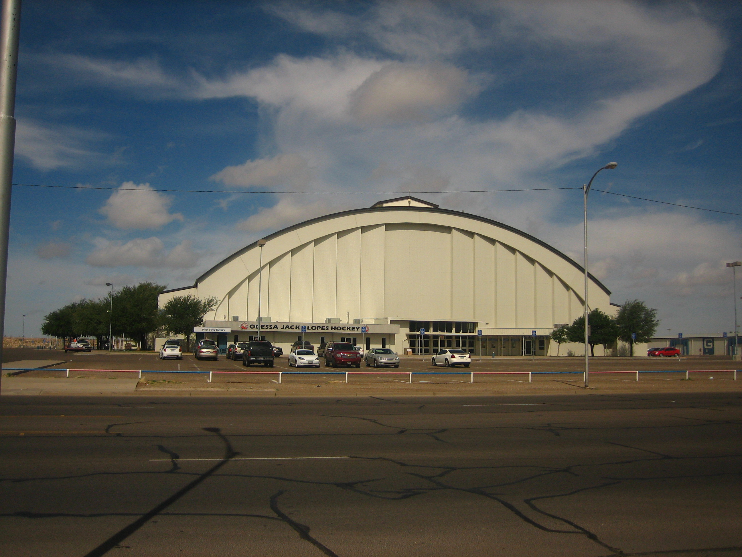 I took photo on July 10, 2008.Billy Hathorn (talk) 14:21, 21 July 2008 (UTC)